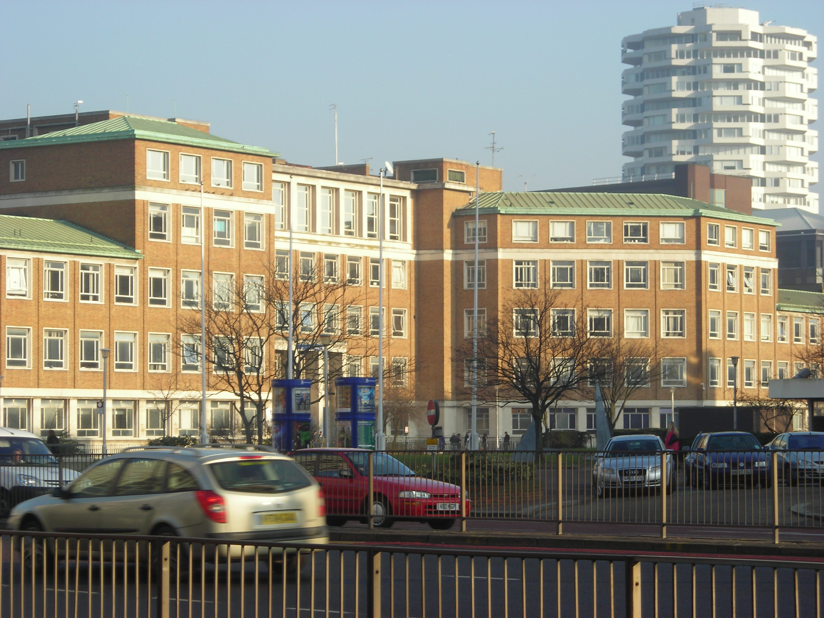 Croydon College and Croydon police station buildings in Central Croydon